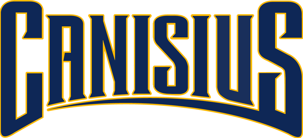 Canisius Athletics wordmark